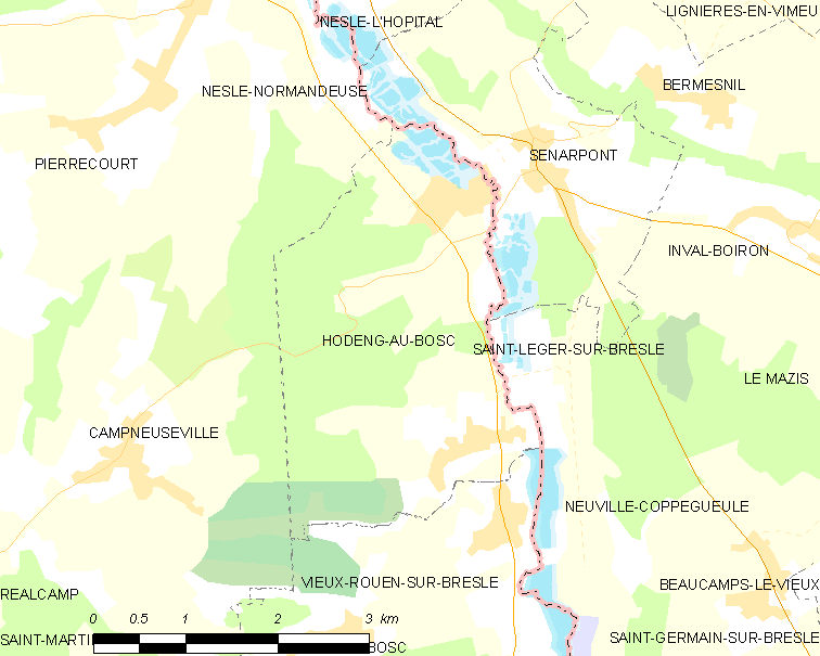 Map of French municipality Hodeng-au-Bosc